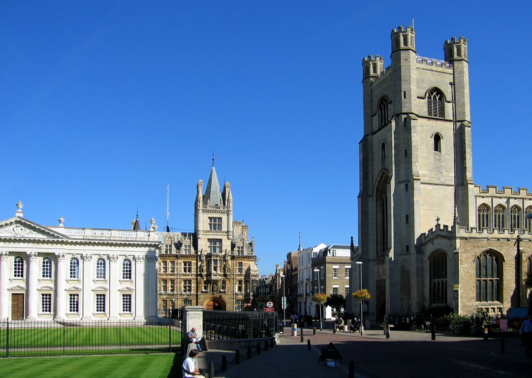 The town centre of Cambridge with the University Church (Great St Mary's) on the right, the Senate House of Cambridge University on the left, and Gonville and Caius College in the middle at the back.